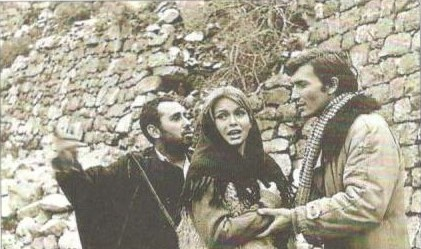 A scene from the Macedonian movie "Time without a war"